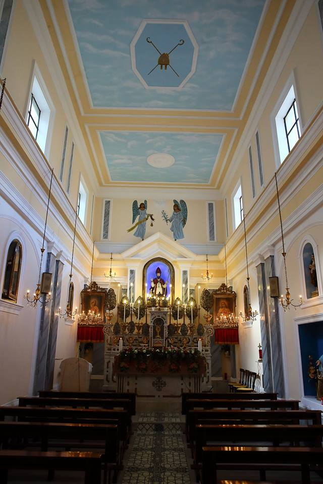 the interior of the church of San Biagio in Casal di Principe (CE, Italy)